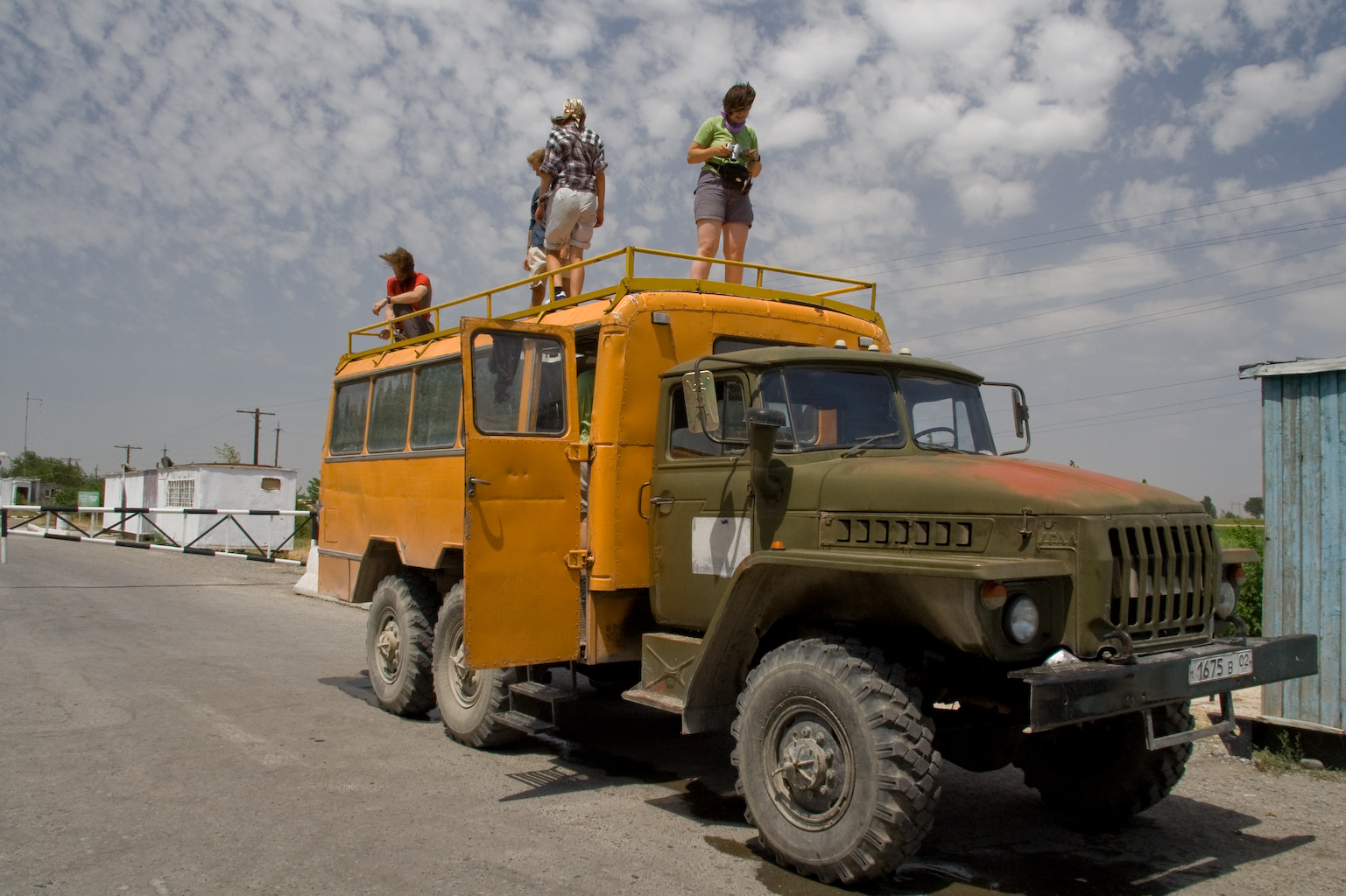 Ural-4320 truck converted to an offrad-bus in Tajikistan.